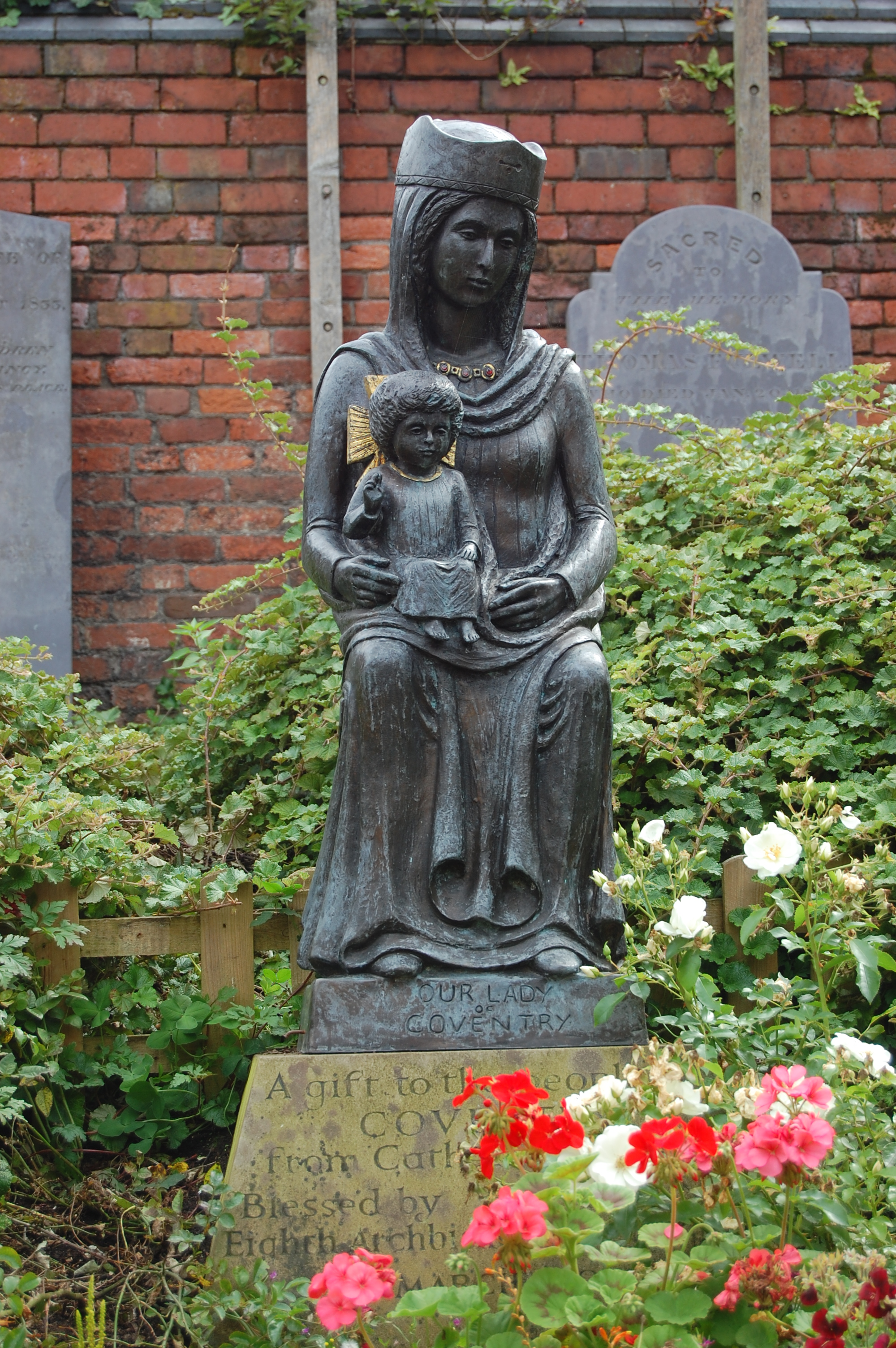 Our Lady of Coventry - Priory Gardens and Ruins in Coventry, UK